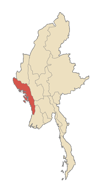 Rakhine state in Myanmar